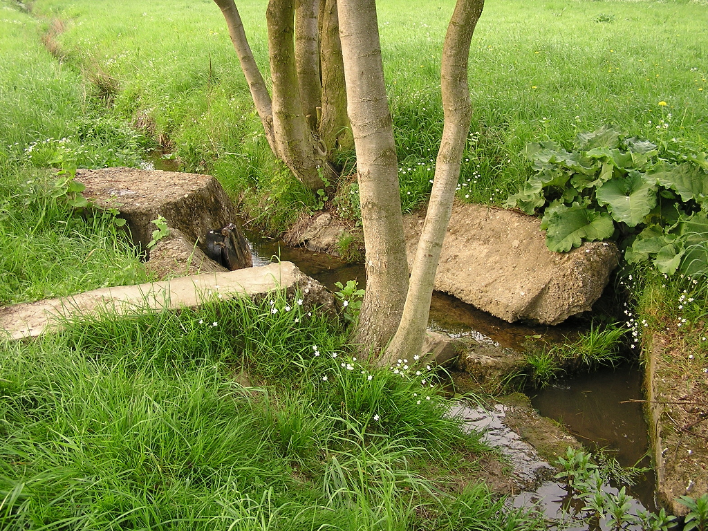 Drainage outlet at the Seulbach